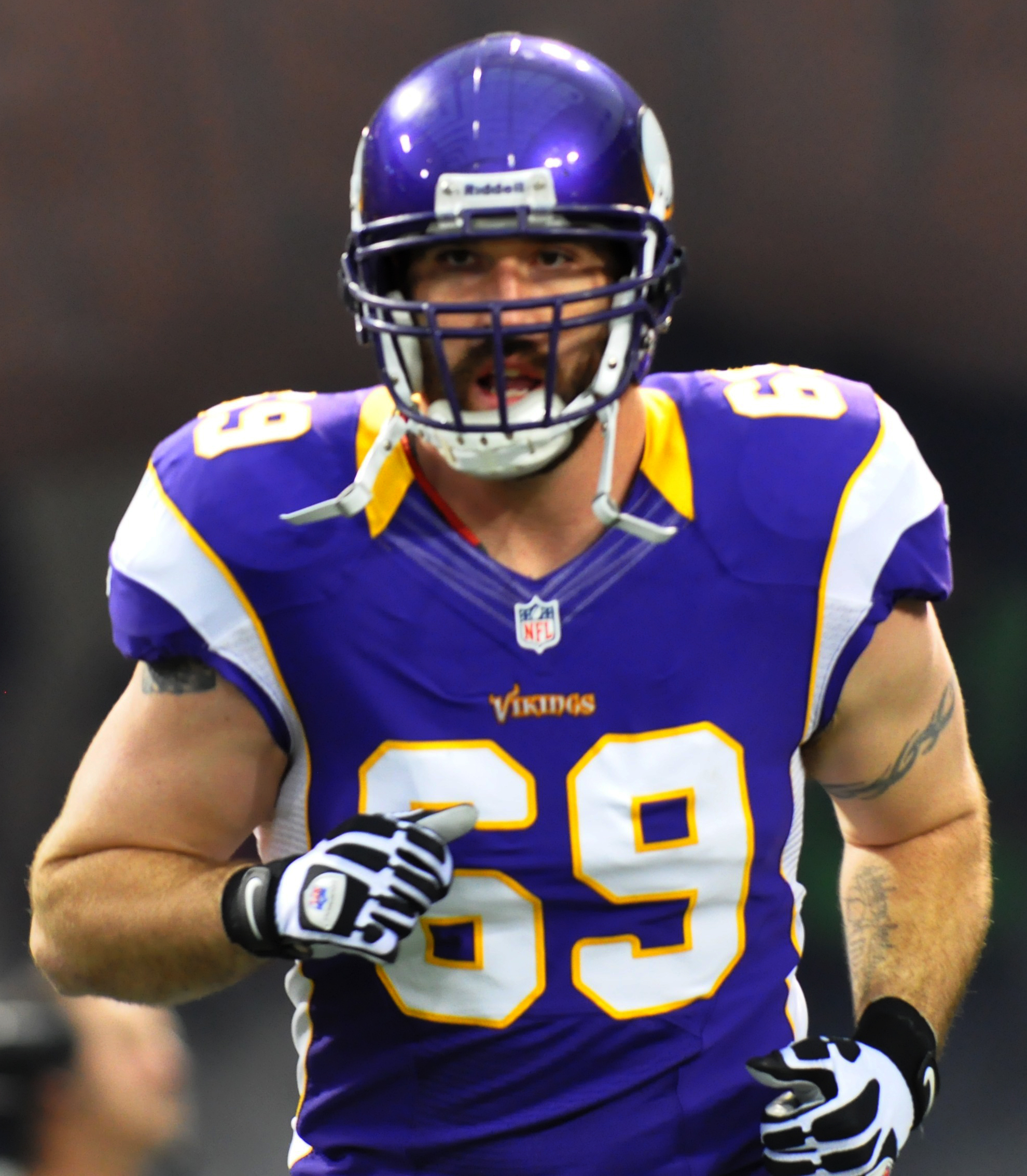 Minnesota Vikings DE Jared Allen during 2012 Green Bay at Minnesota